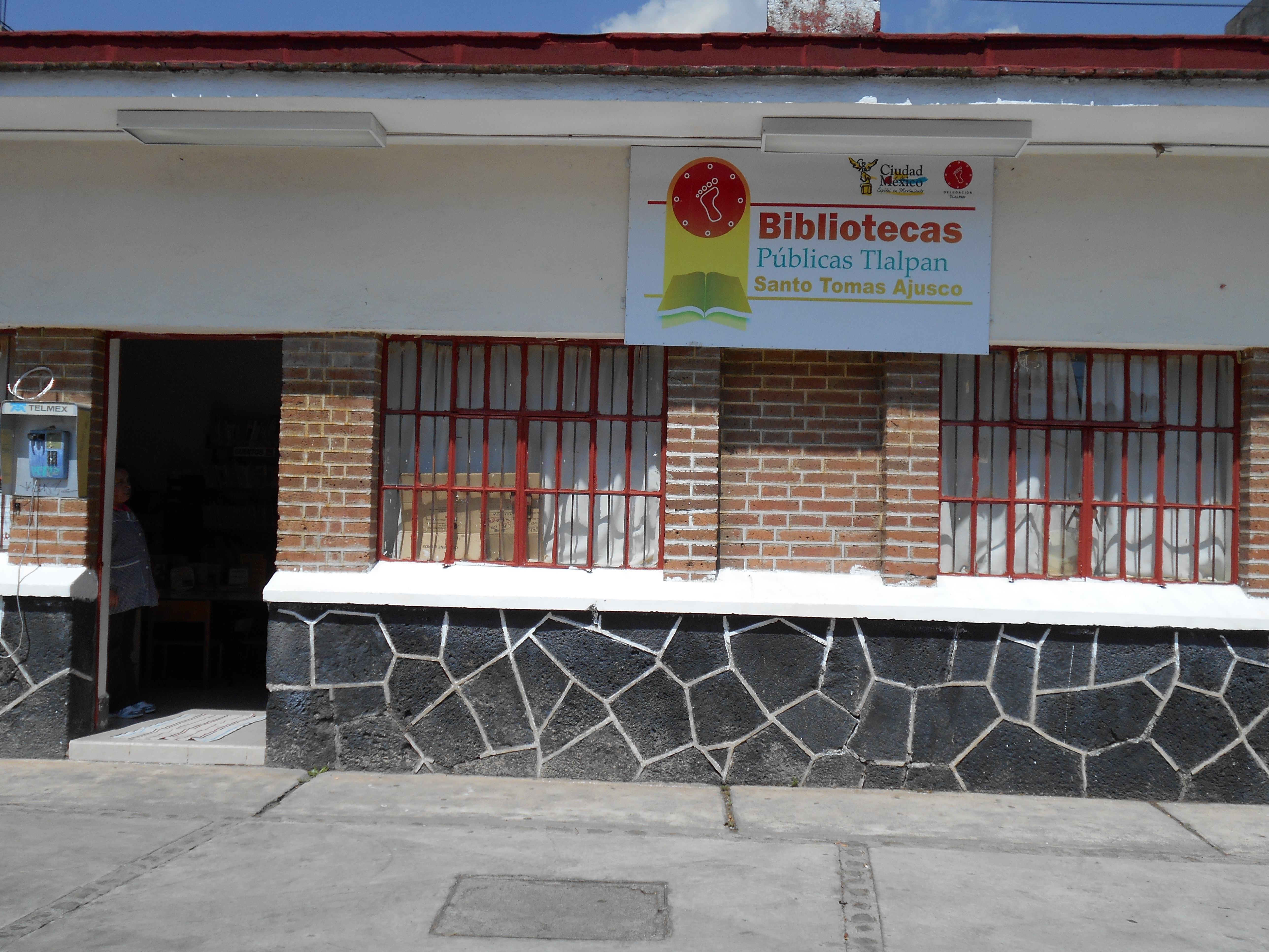 Español